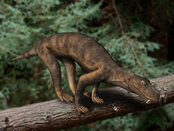 Arctops watsoni, Late Permian of South Africa. Digital.